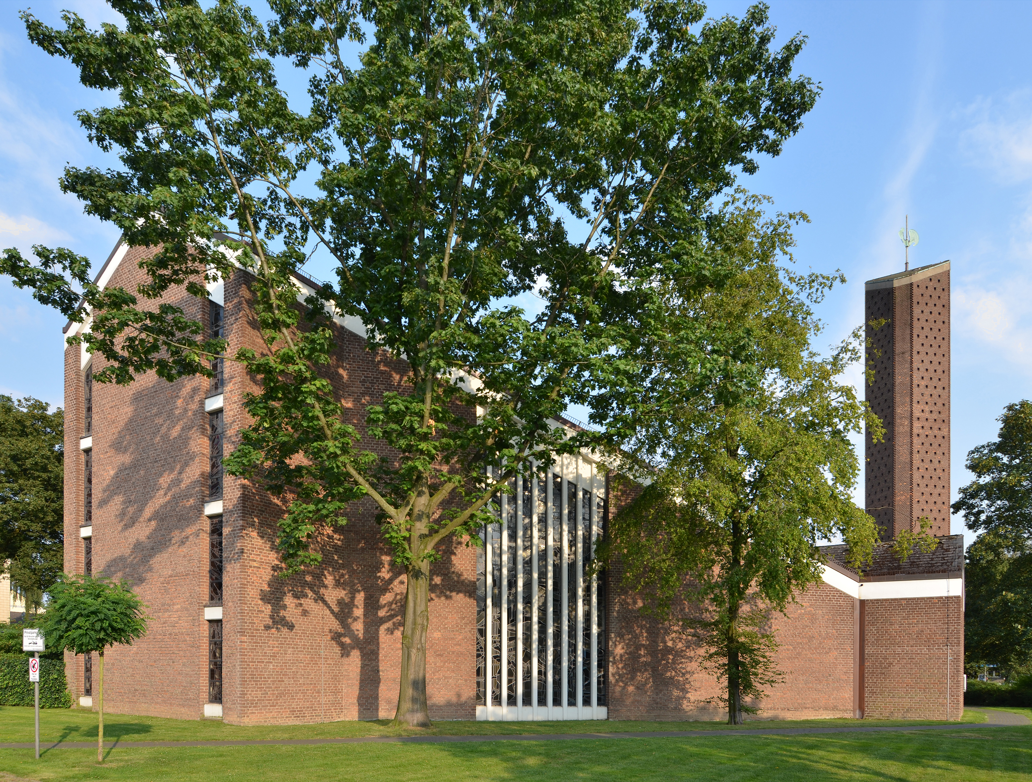 Duisburg (North Rhine-Westphalia, Germany) – borough Rheinhausen, district Rumeln – Catholic Saint Mary Church This photograph was taken with a Nikon D7000